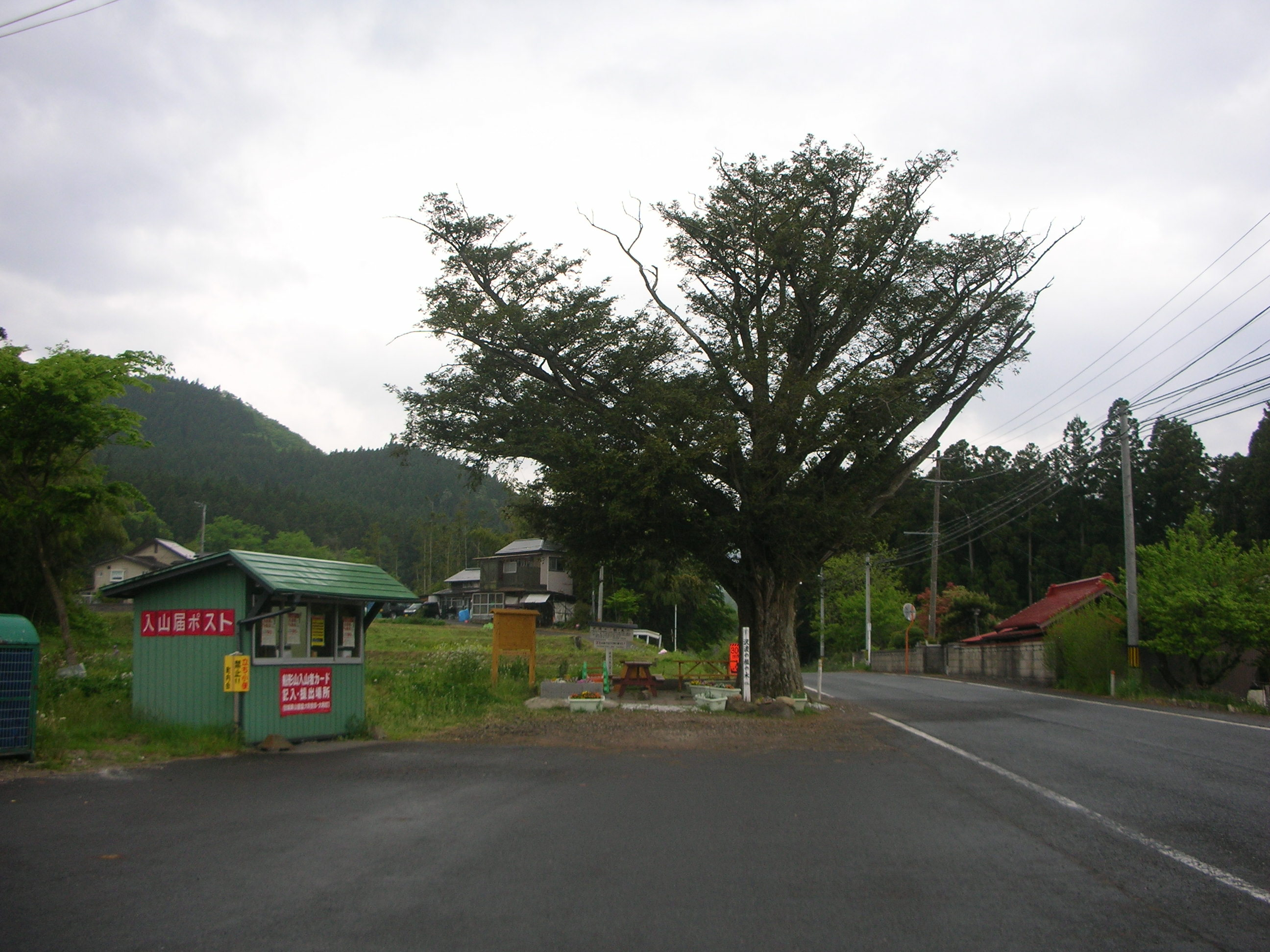 Sawatari no Kaya no ki ("Torreya tree of Sawatari") and box for posting Mount Funagata trekking registration